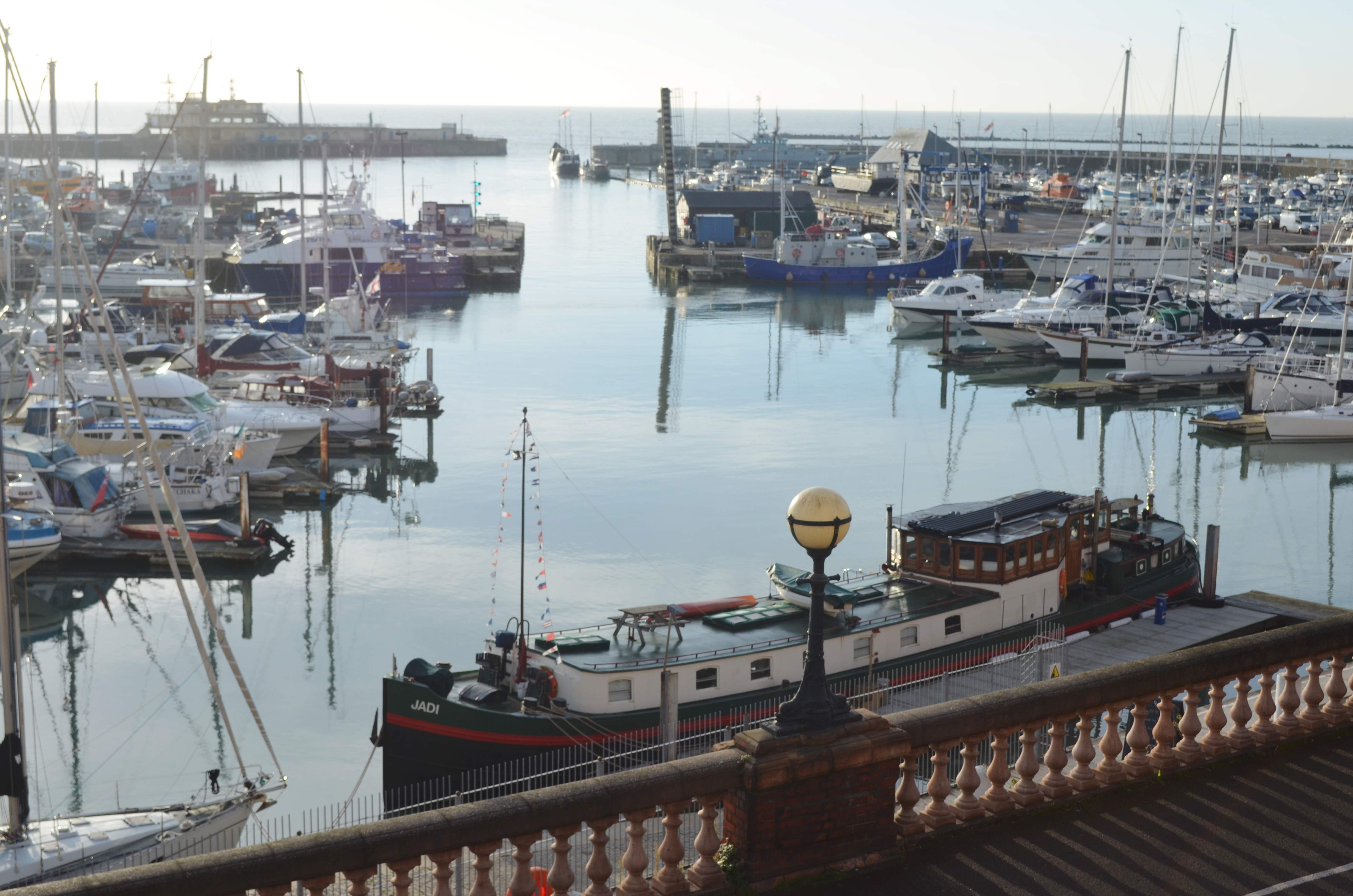 Balustrade on the Royal Parade, Ramsgate, Kent.